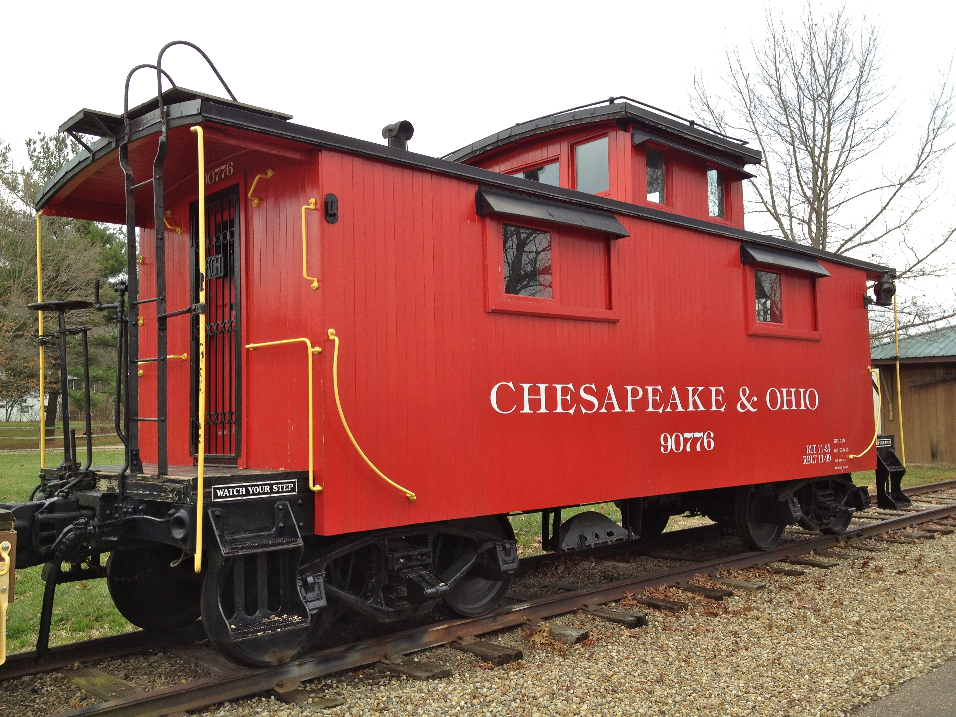 Chesapeake & Ohio caboose #90776 located on the Kokosing Gap Trail at the former Gambier station